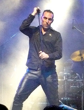 The French power metal band Heavenly playing live at the Elysée Montmartre (Paris) on 10 November 2008